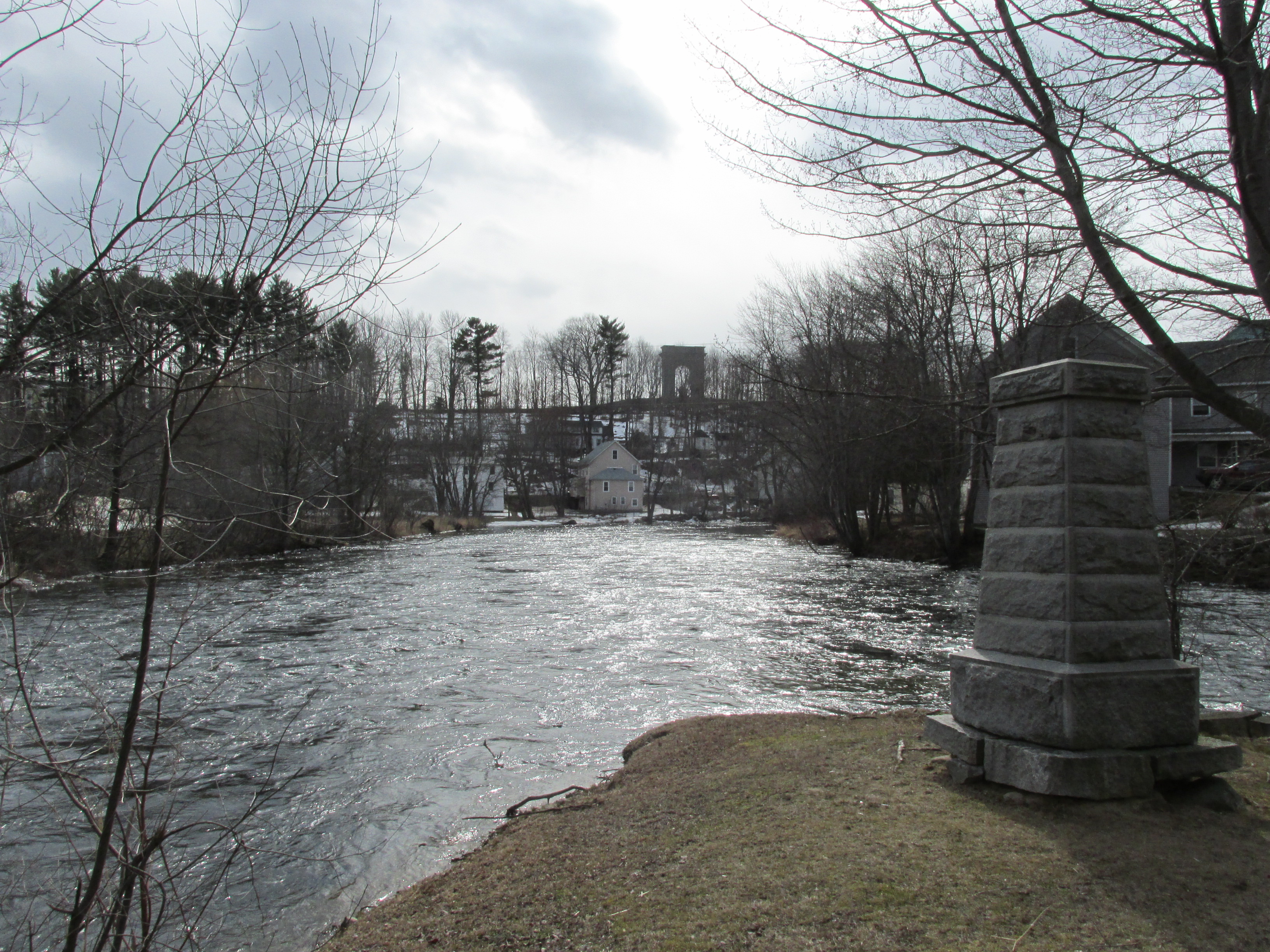 Pedestal, Island Park, Northfield New Hampshire